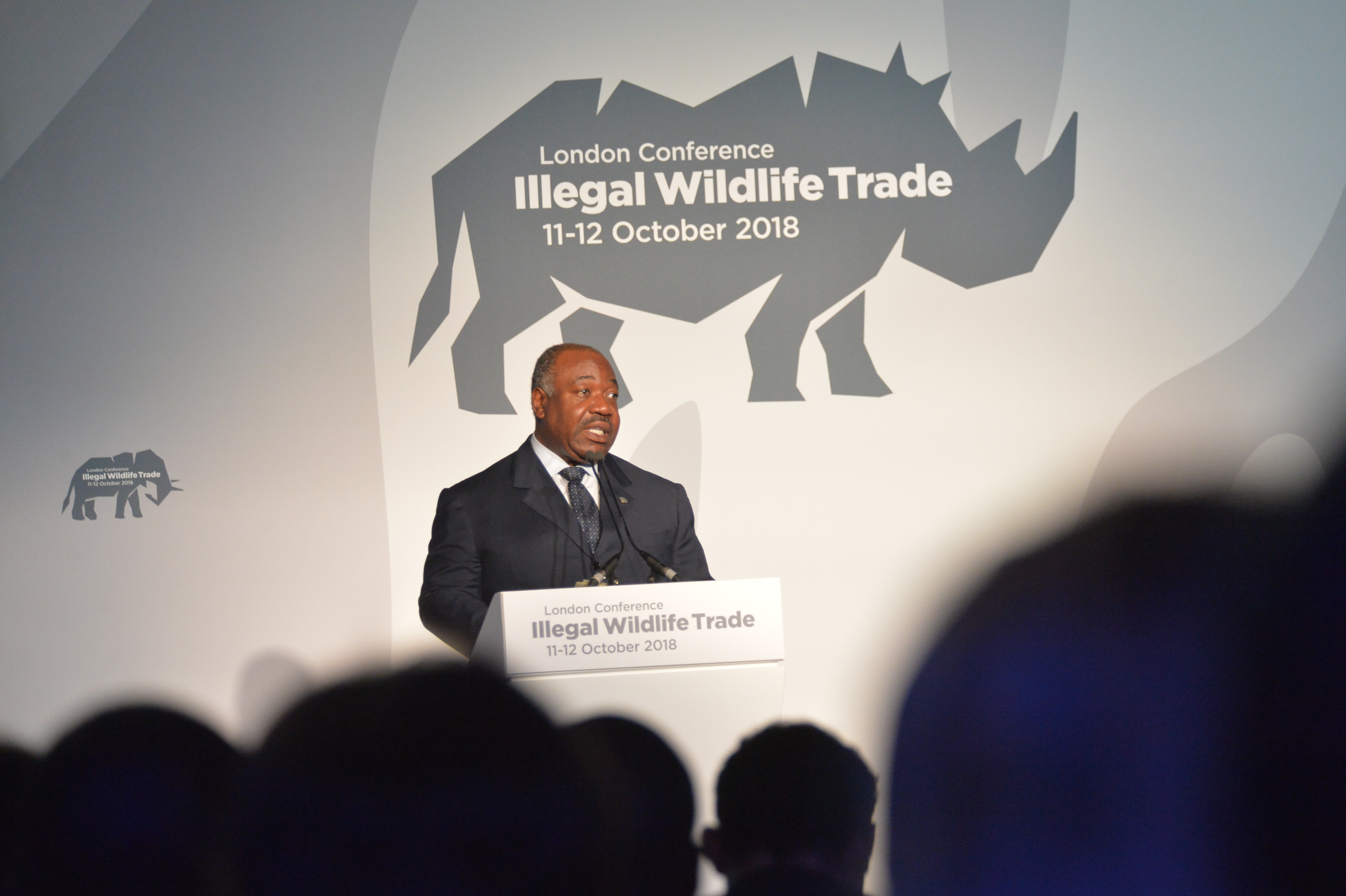 His Excellency Ali Bongo Ondimba, The President of Gabon speaking at the Illegal Wildlife Trade Conference: London 2018, 11 October 2018. Photographer: Mark Mackenzie